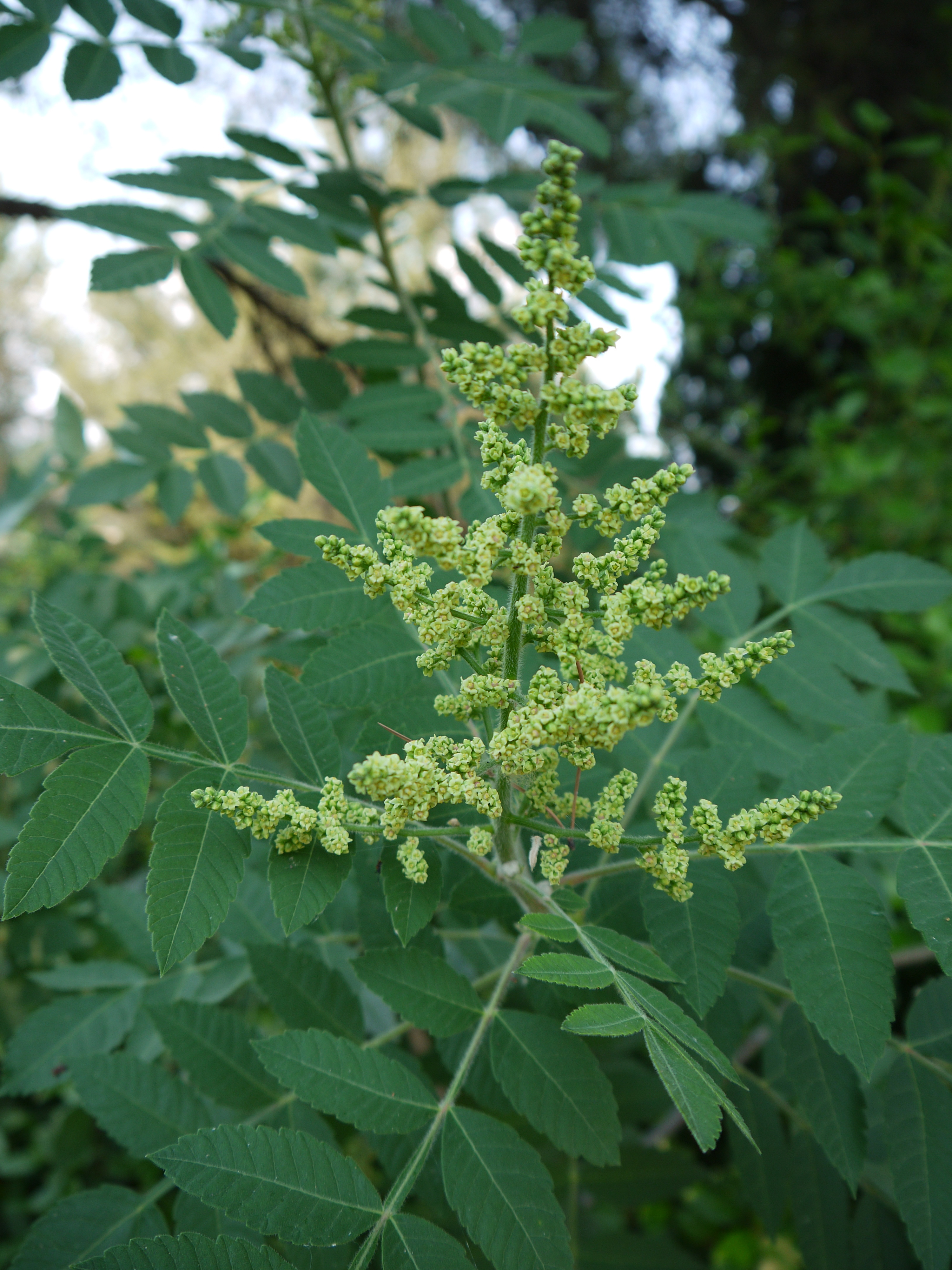 BourrinOman